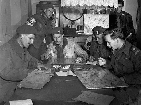 actical Headquarters of Les Fusiliers Mont-Royal, Munderloh, Germany, April 29, 1945